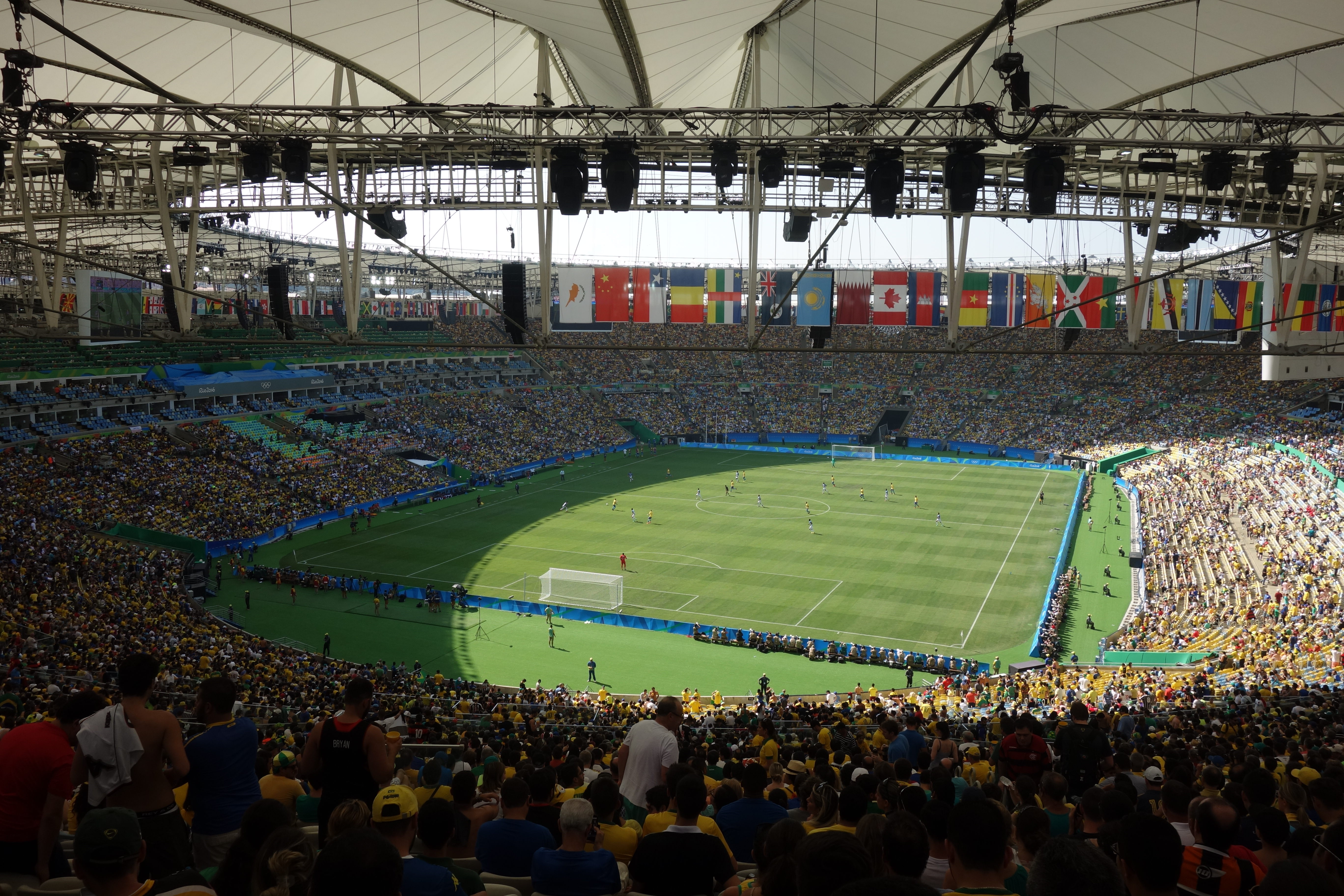 Brazil vs Honduras, semifinal, men's football tournament at the 2016 Summer Olympics, Maracanã Stadium, Rio de Janeiro, Brazil.